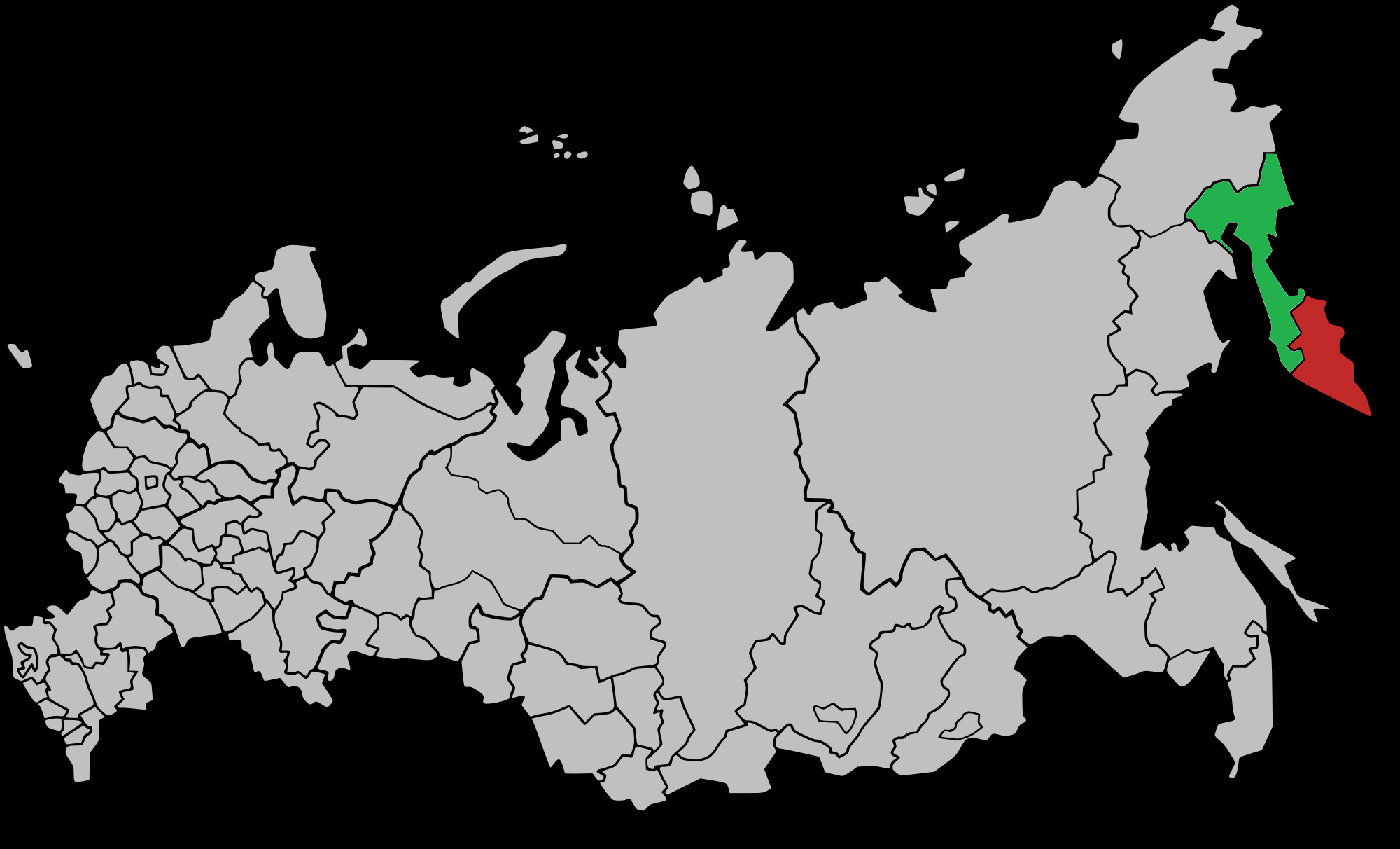 krai unification